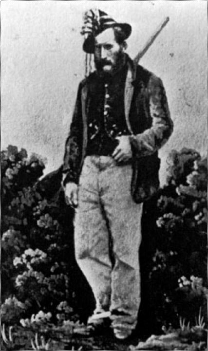 portrait of Antonio Cozzolino "Pilone" brigands